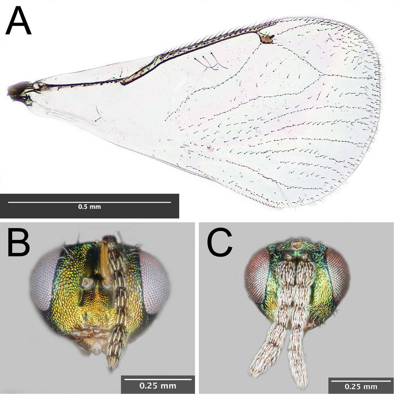 A. Right forewing of male Euderus set B. Anterior view of female Euderus set head C. Anterior view of male Euderus set head.